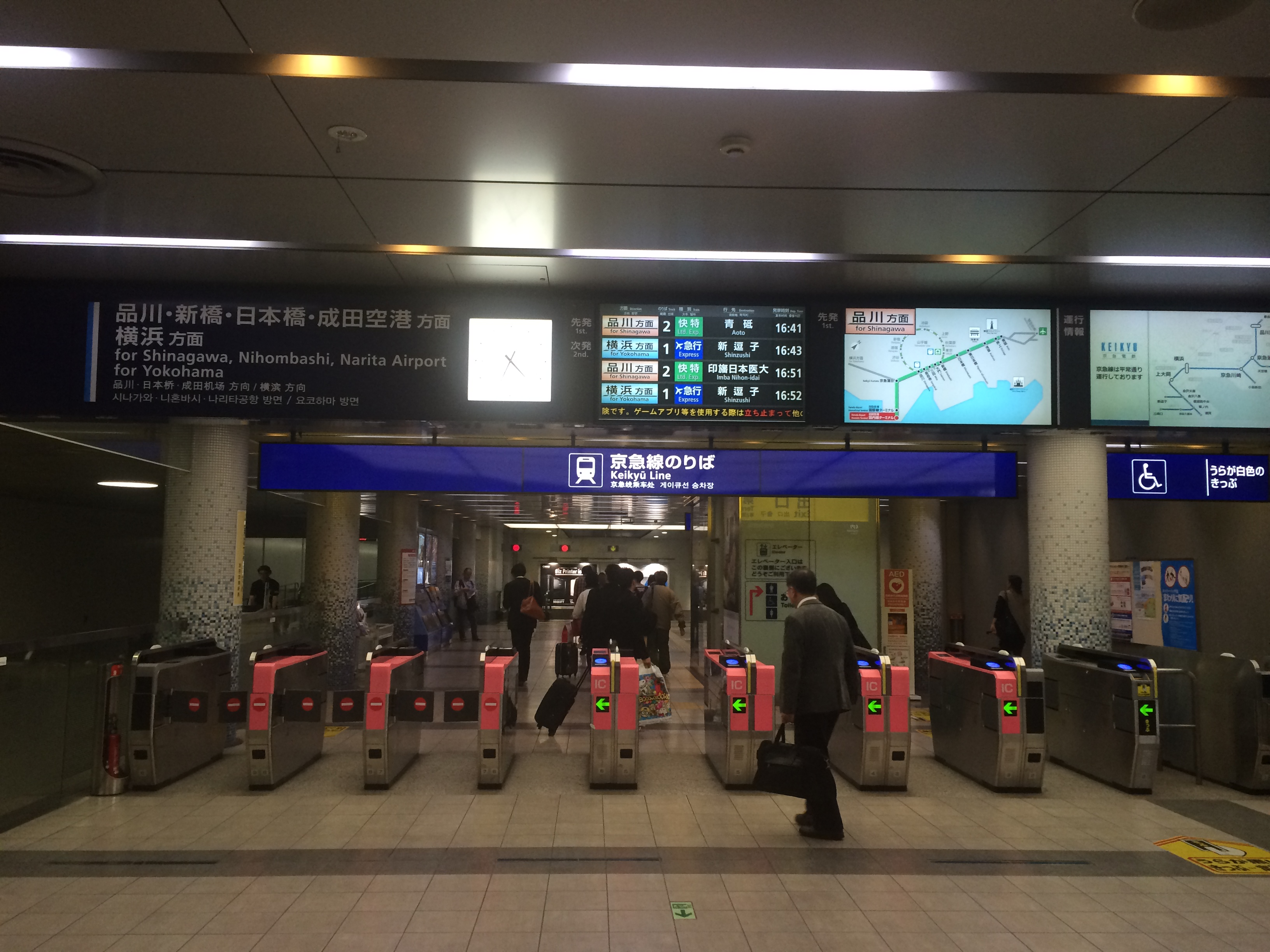 The ticket barriers at Keikyu Haneda Airport Domestic Terminal Station